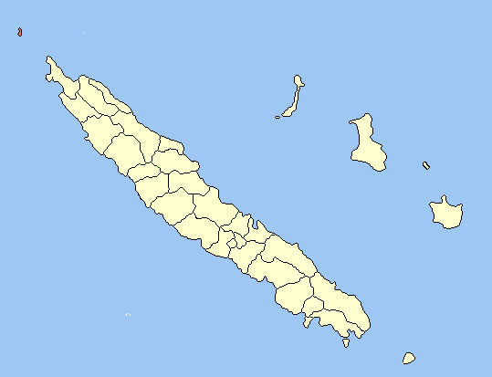 Created map myself.